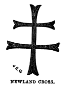 Illustration of the "Newland Cross," several of which appear, fashioned out of metal, on outbuildings of the Newlands Park estate near Normanton, West Riding. Says antiquary William Stott Banks in his book 'Walks in Yorkshire: Wakefield and its neighbourhood': "The only ancient thing left (if, as I believe, they are ancient) are two or three metal crosses on the outbuildings -- the patriarchal cross -- which the Knights used as their sign of possession. The same sign is carved in stone over a doorway, and on a finial above a well in the wood, called St John's well, and elsewhere; and it appears upon the farm buildings at Woodhouse." The antiquary William Stott Banks's book "Walks in Yorkshire: Wakefield and its neighbourhood" was published by Longmans, Green, Reader, and Dyer, London, 1876. Unknown creator of woodcut accompanying the text. Initials on the woodcut are "J.E.G."